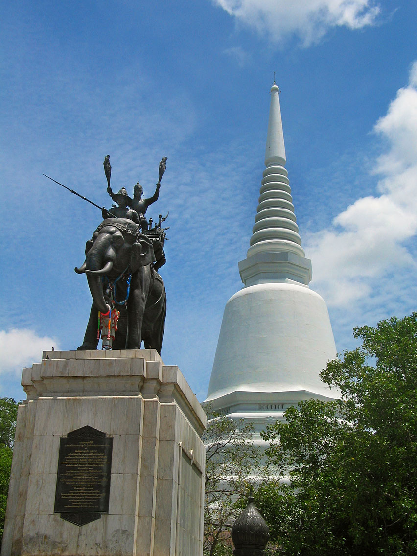 War memorial, sculpture by Silpa Bhirasri, , Amphoe Don Chedi, Suphanburi Province, Thailand